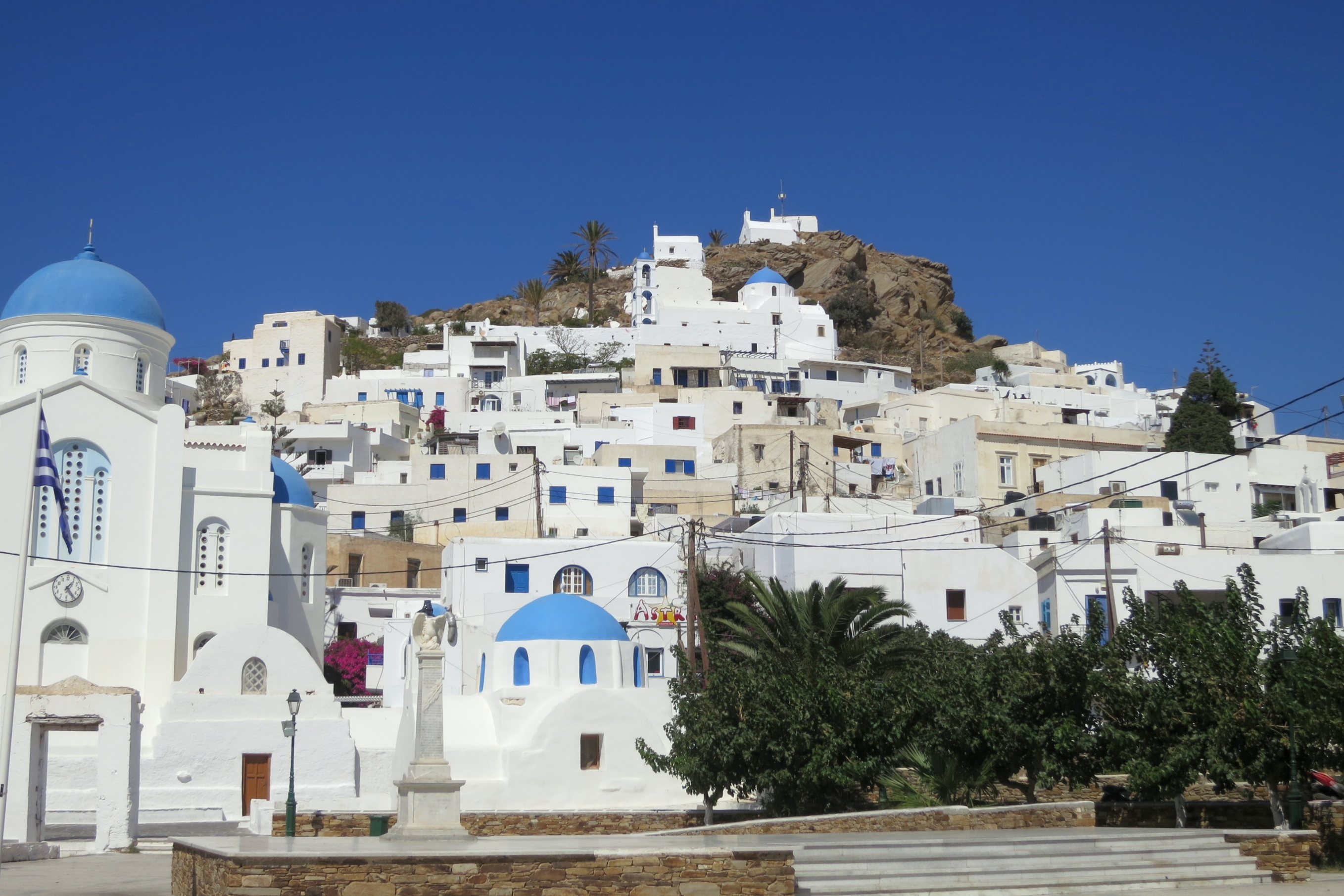 Square of Chora of Ios island. On the left is an Orthodox cathedral, above Kastro.